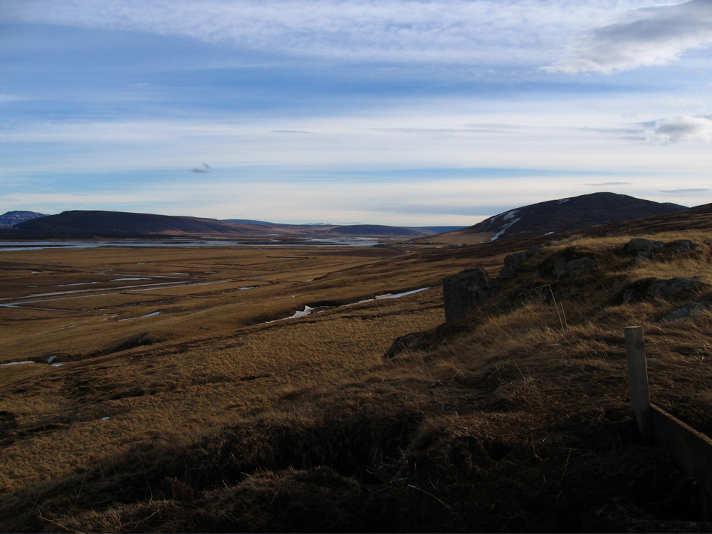 Picture taken in a place called Útkinn in northern Iceland.